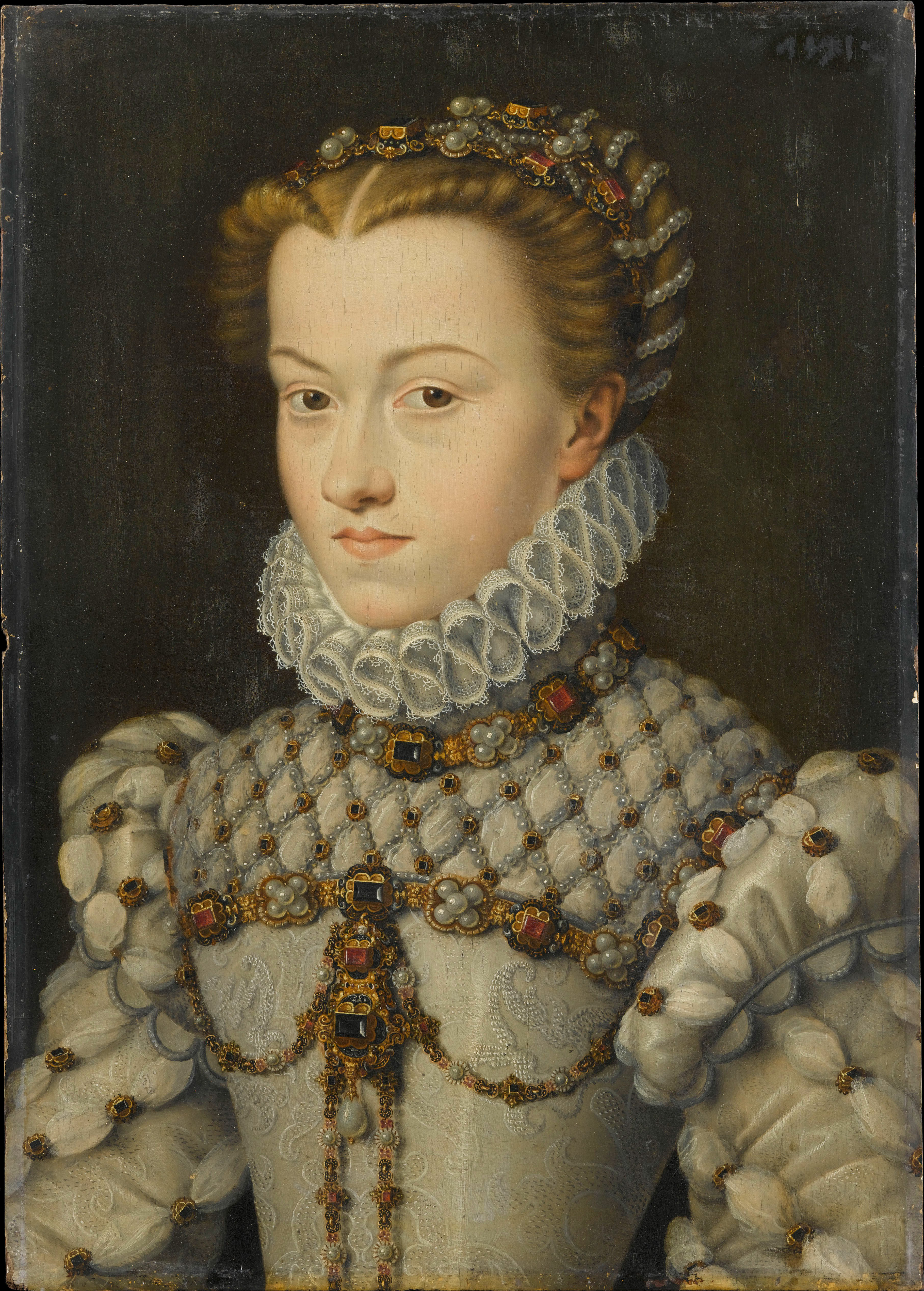 Elisabeth of Austria (1554-1592), Queen of France, daughter of Holy Roman Emperor Maximilian II of Austria and Infanta Maria of Spain, wife of King Charles Charles IX of Francelabel QS:Len,"Elisabeth of Austria (1554-1592), Queen of France, daughter of Holy Roman Emperor Maximilian II of Austria and Infanta Maria of Spain, wife of King Charles Charles IX of France"label QS:Lfr,"Élisabeth d'Autriche (1554-1592), Epouse de Charles IX et reine de France (1570-1574)"label QS:Lru,"Елизавета Австрийская (1554—1592), супруга Карла IX и королева Франции (1570-1574)"